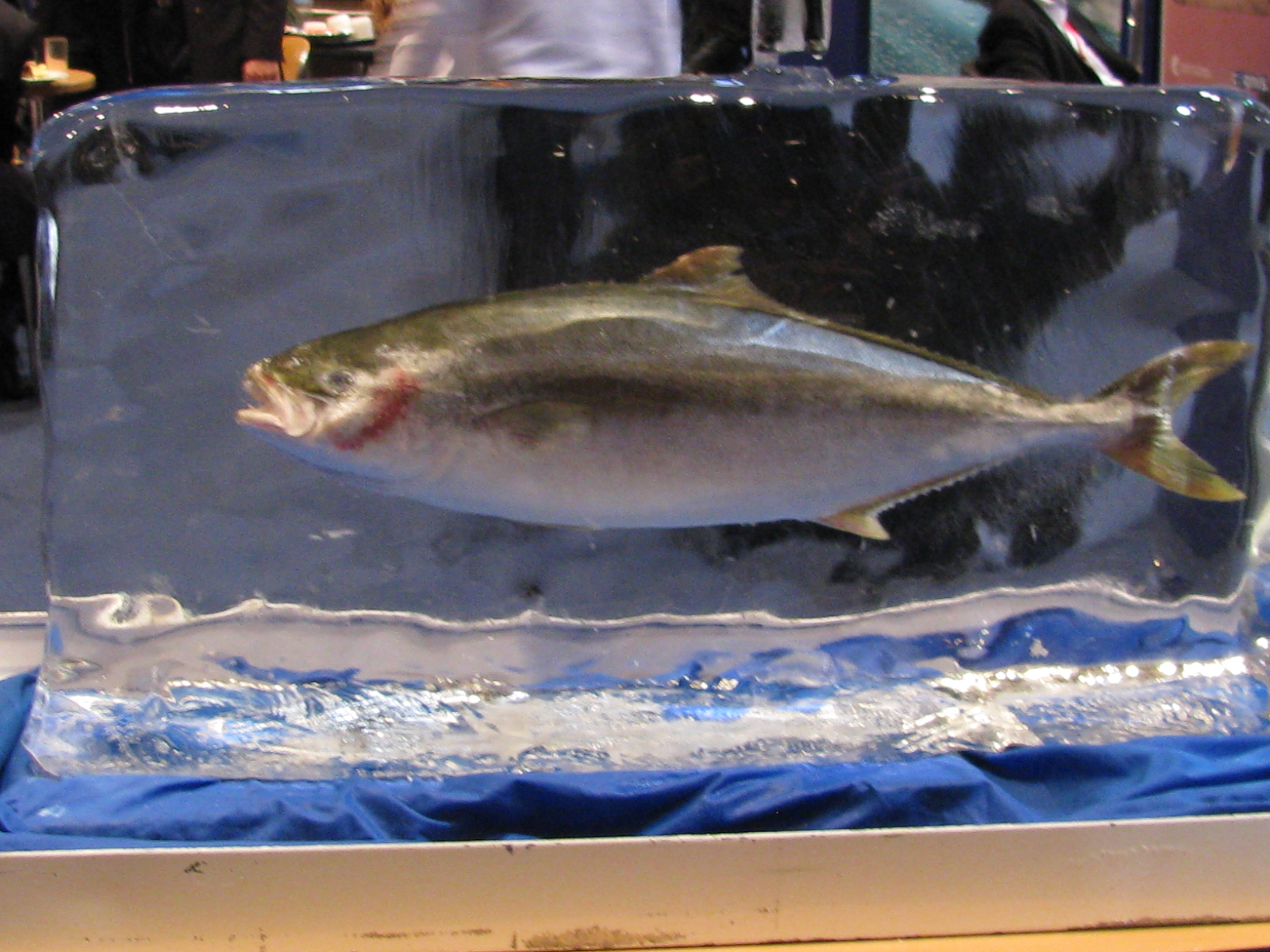 Frozen fish in ice